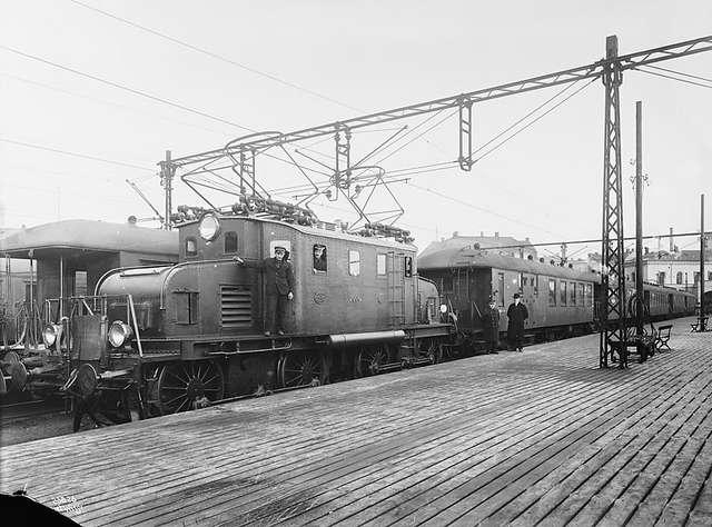 Norges Statsbaner El 1 at Oslo Vestbanestasjon, Norway.